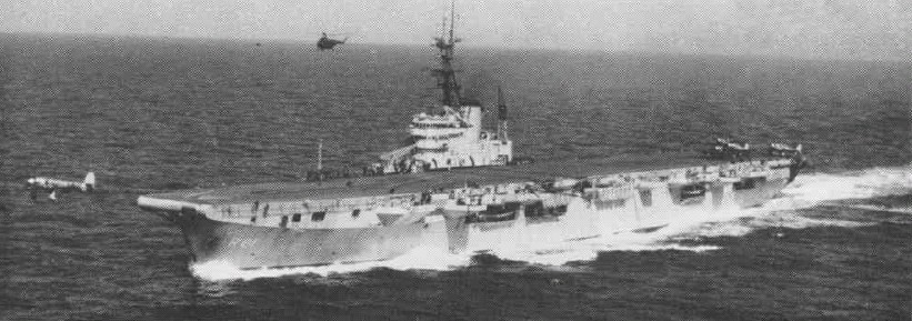 The Koninklijke Marine (Royal Netherlands Navy) aircraft carrier Hr. Ms. Karel Doorman (R81) in the mid-1950s. A Hawker Sea Fury has just been launched.